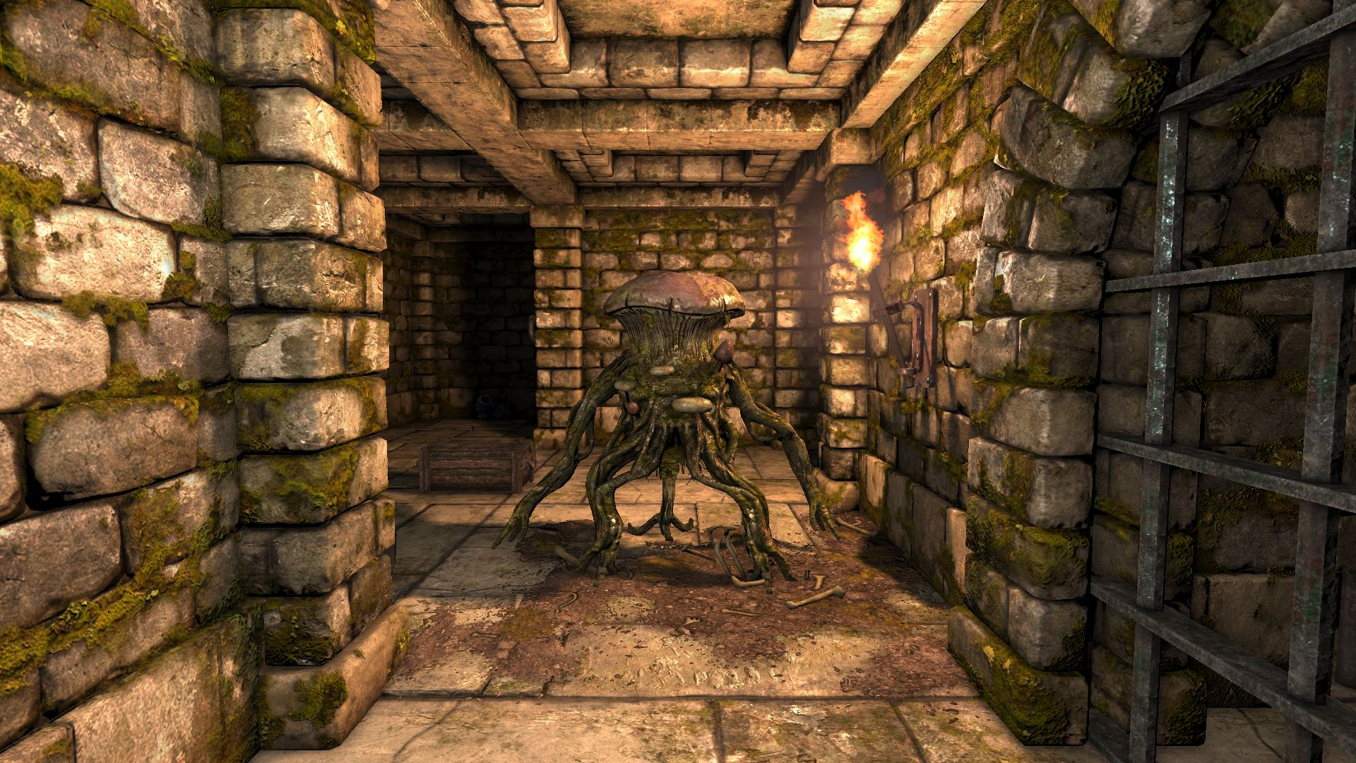 screenshot of the dungeon crawler computer game Legend of Grimrock (2012)